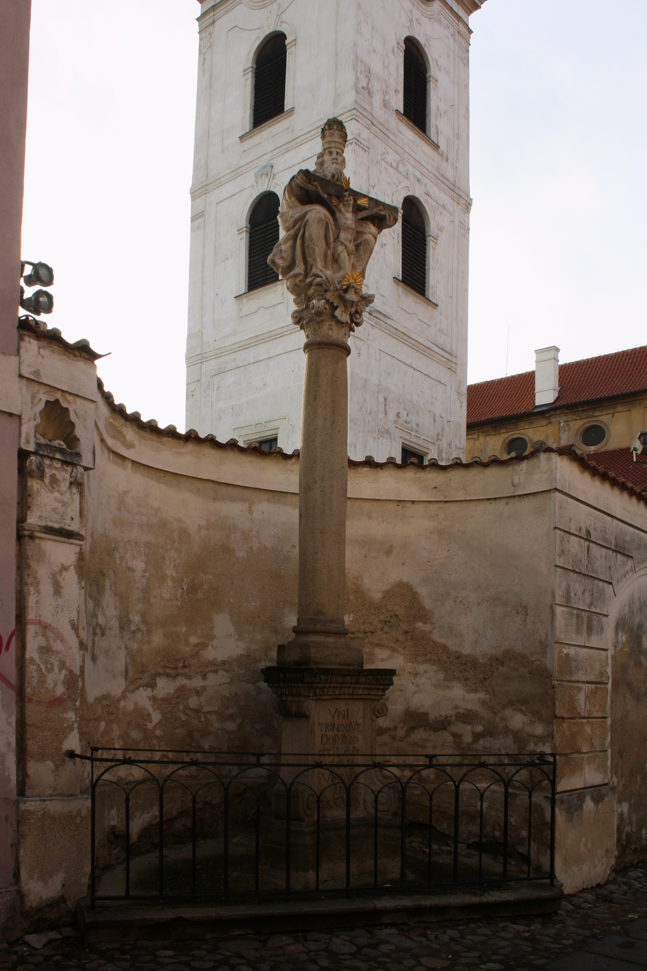 This photograph was taken with a DSLR from WMCZ's Camera grant.